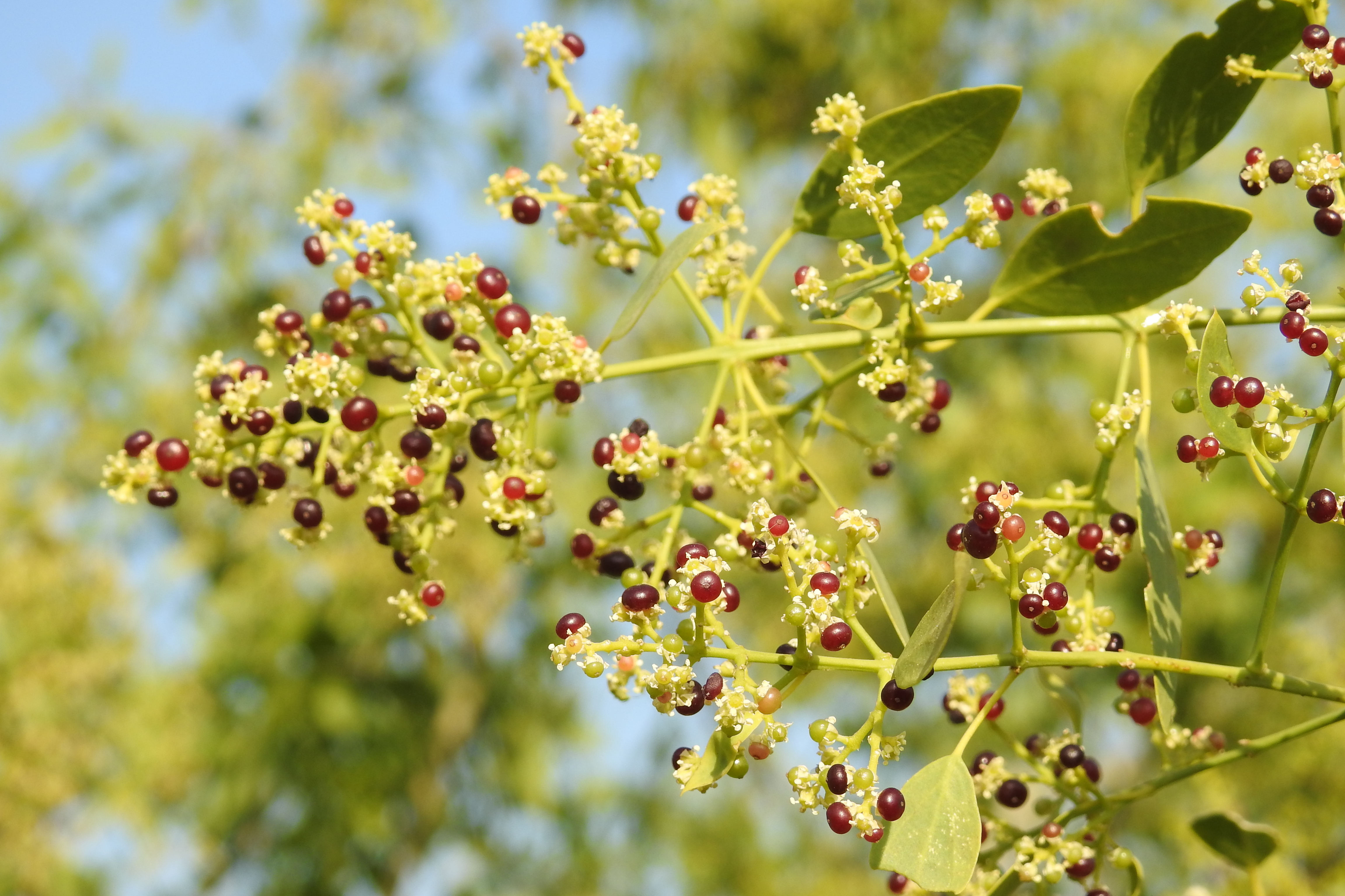 Salvadora persica Miswak Pilu. Photo taken at Keoladeo National Park or Bharatpur Bird Sanctuary, Rajasthan